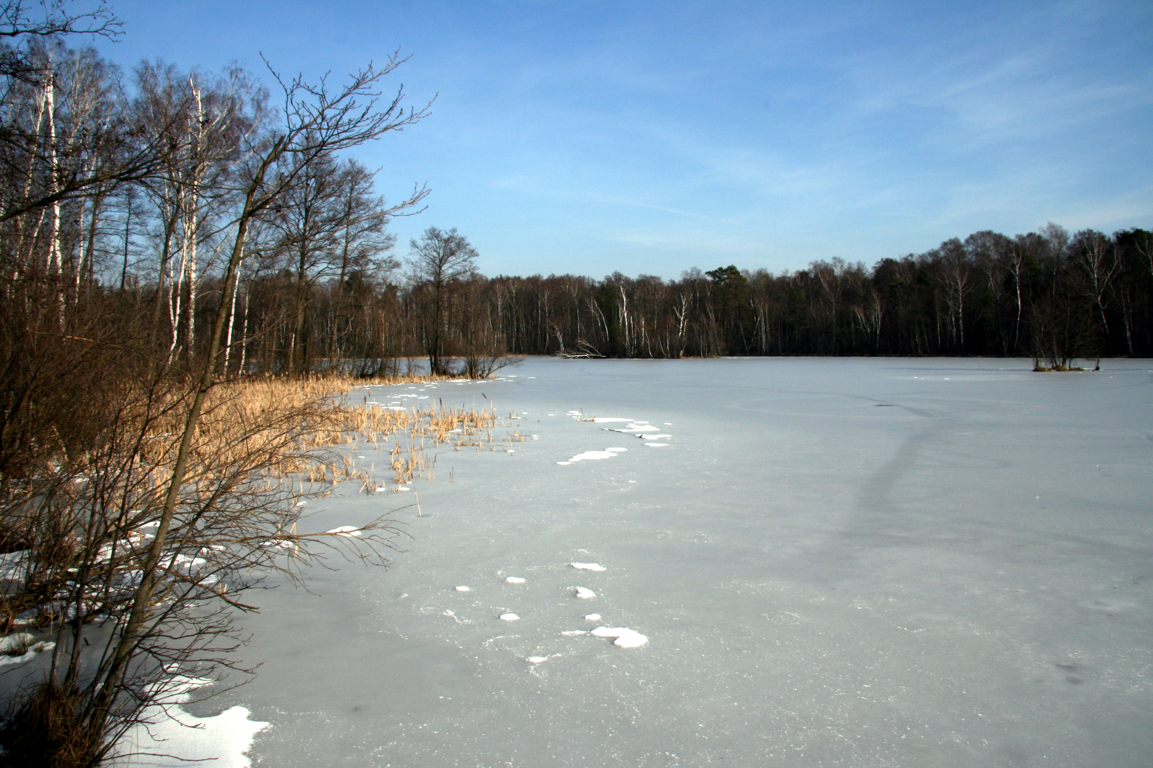 Torfy Lake, Nature reserve "Na Torfach", Poland This is a photography of protected area with CRFOP ID PL.ZIPOP.1393.PK.72